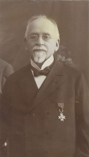 Anton Foerster (1837-1926)